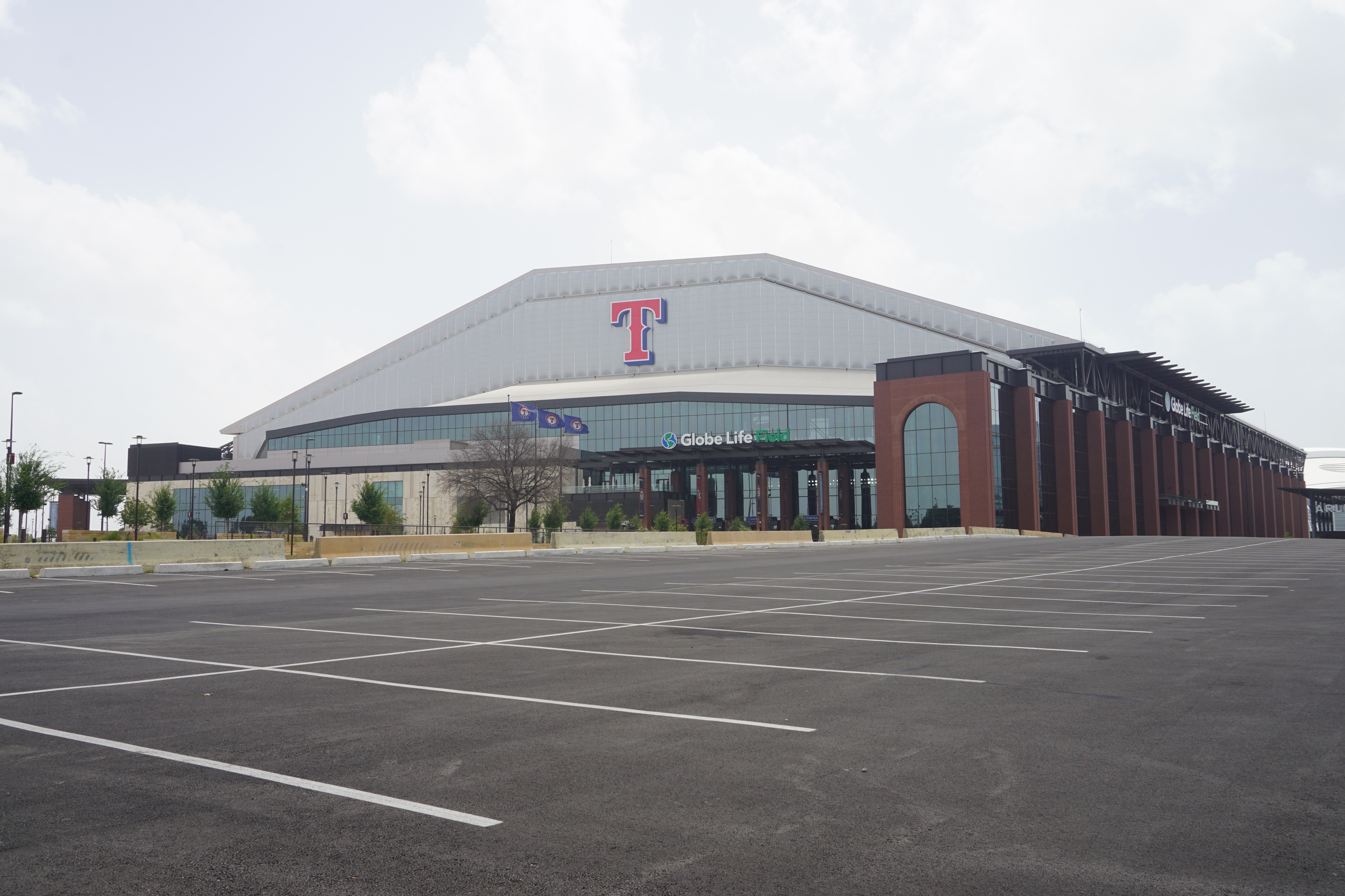 Globe Life Field in Arlington, Texas (United States).